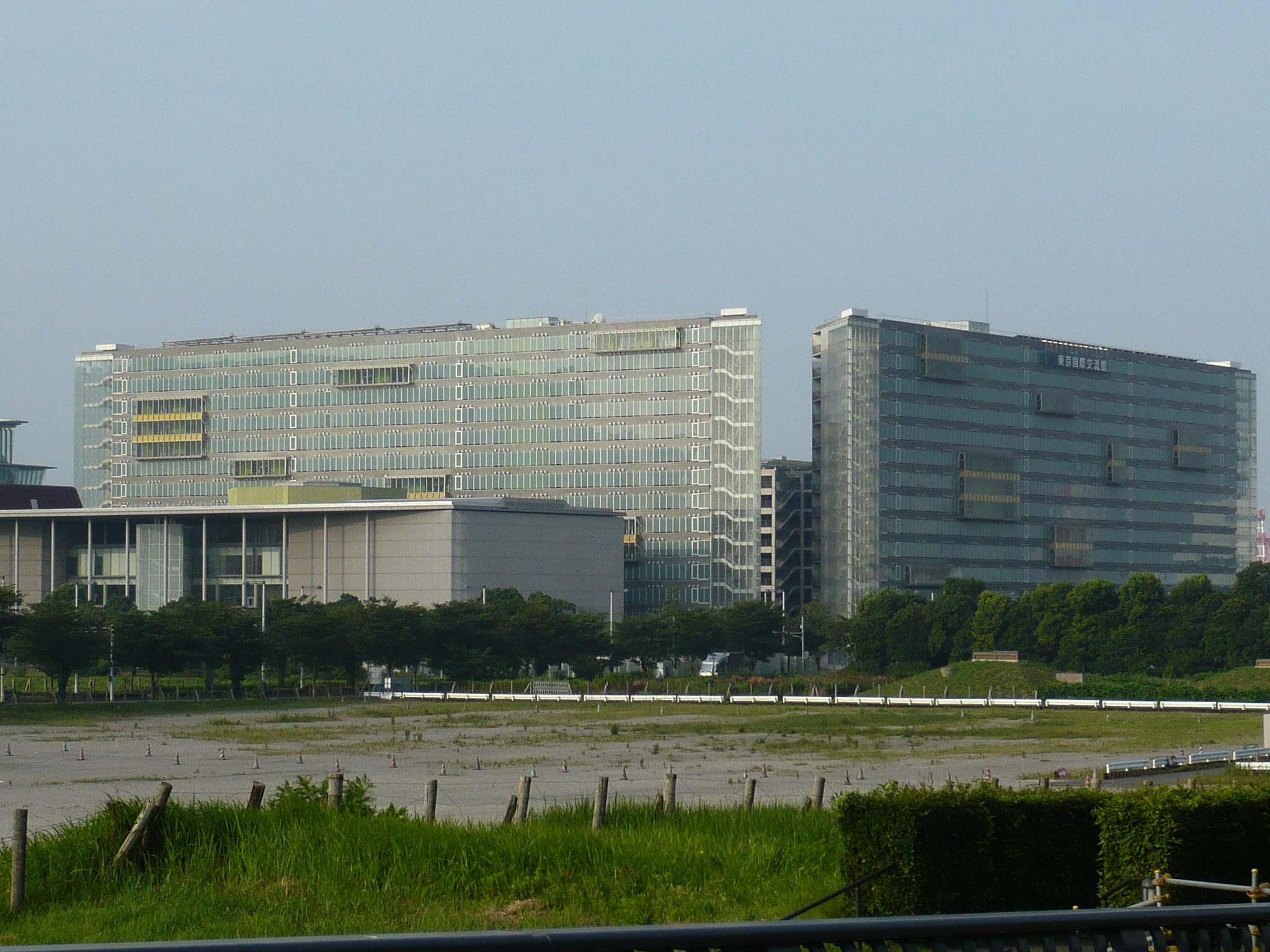 Tokyo-Kokusai-kouryuukan(東京国際交流館) in Koto-ku,Tokyo,Japan.